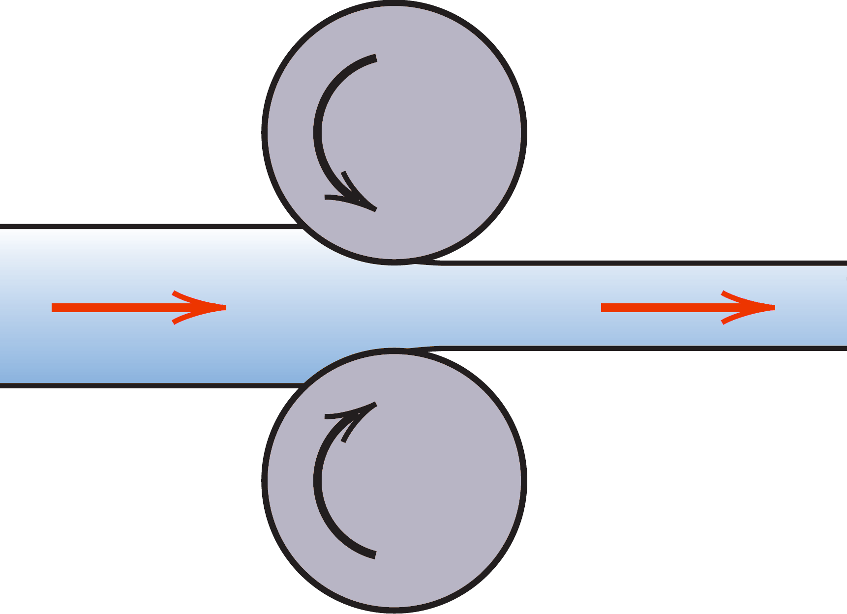 The schematic procedure of metal rolling.